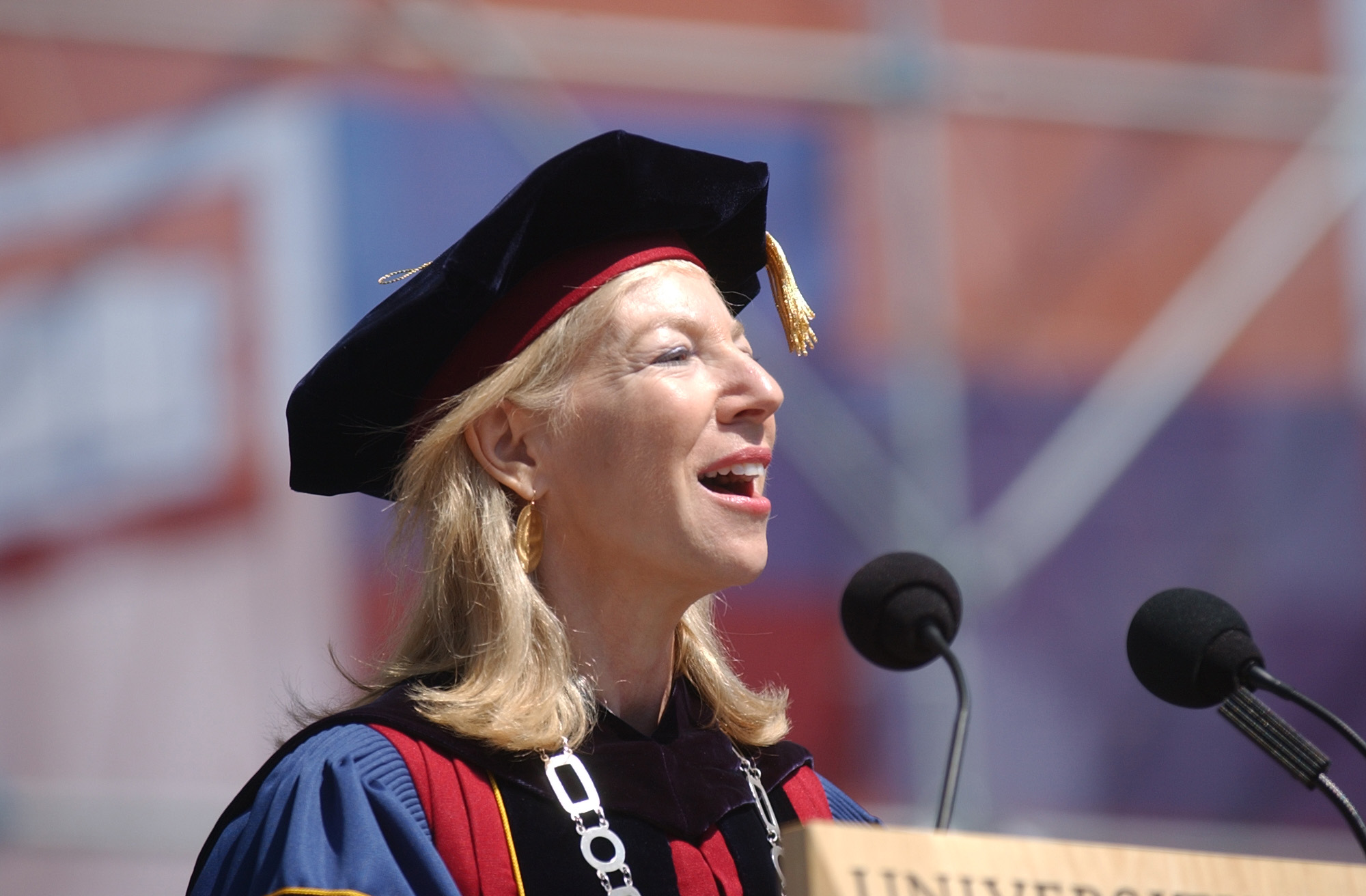 Author: Stuart Watson